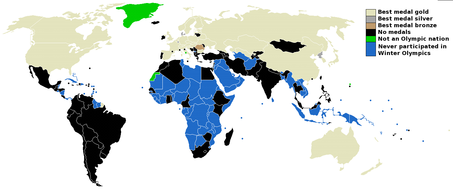 World map showing nations that have won Winter Olympic medals